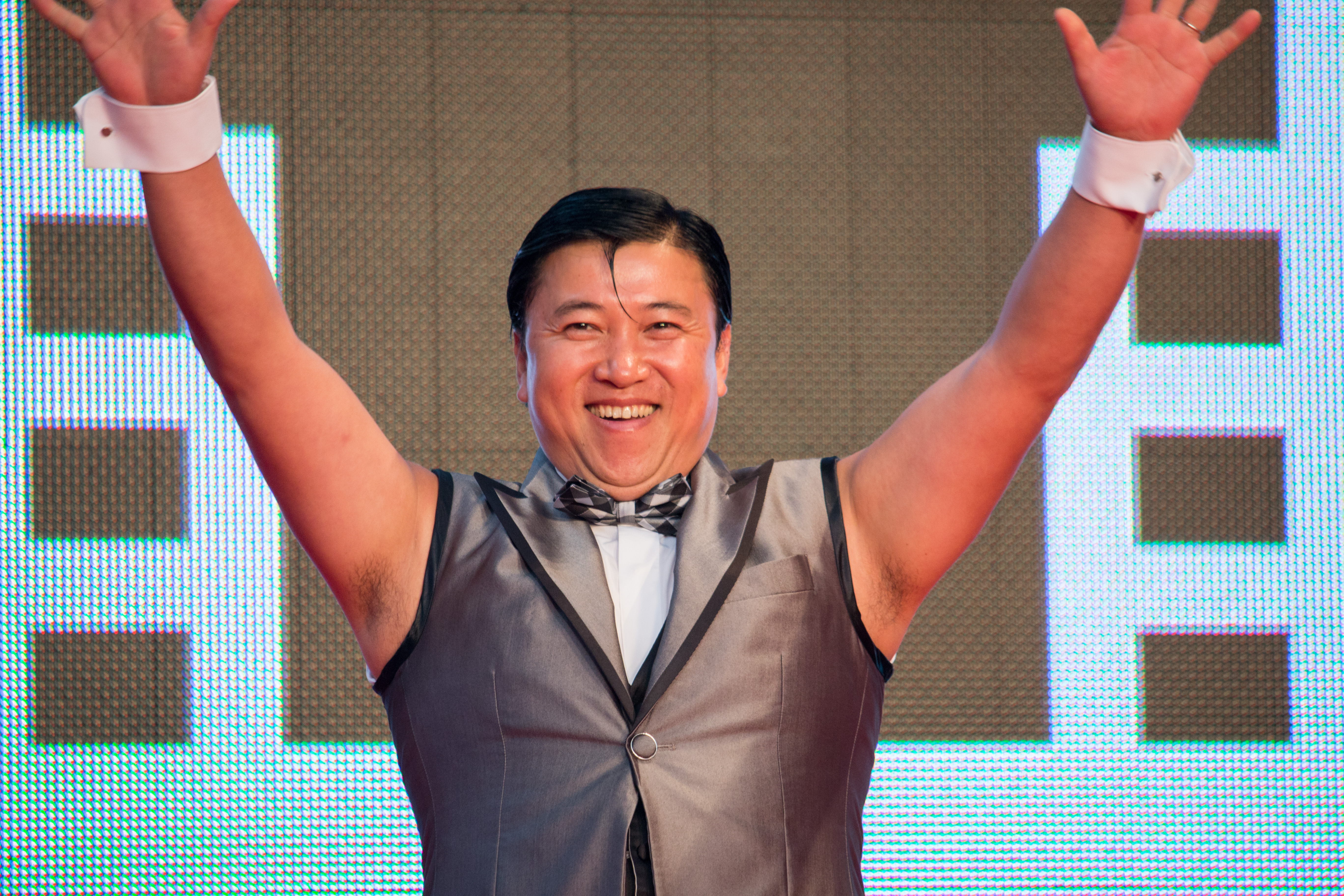 Japanese comedian Sugi-chan at the opening ceremony of the 28th Tokyo International Film Festival